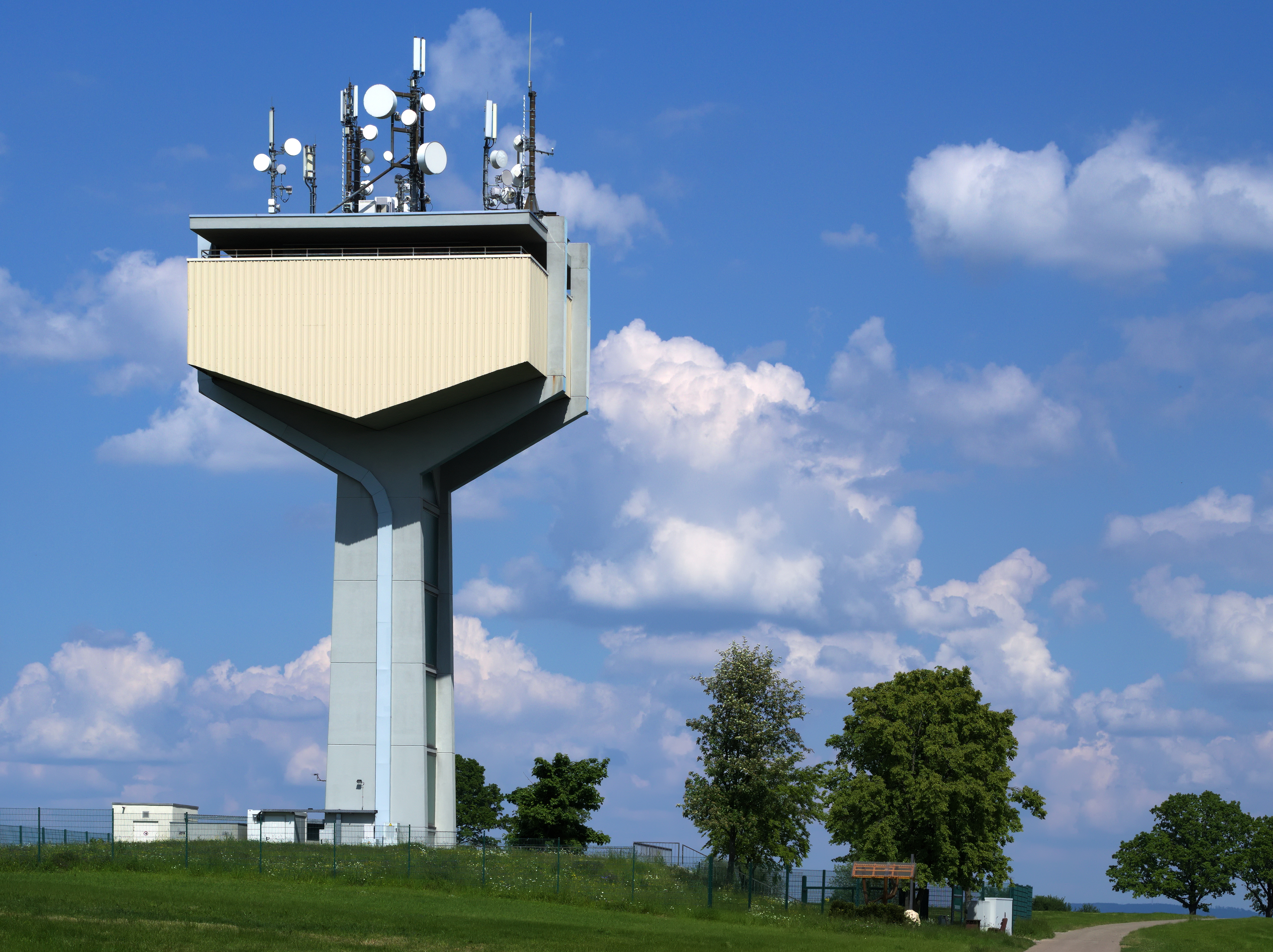 Iggingen water tower, Germany